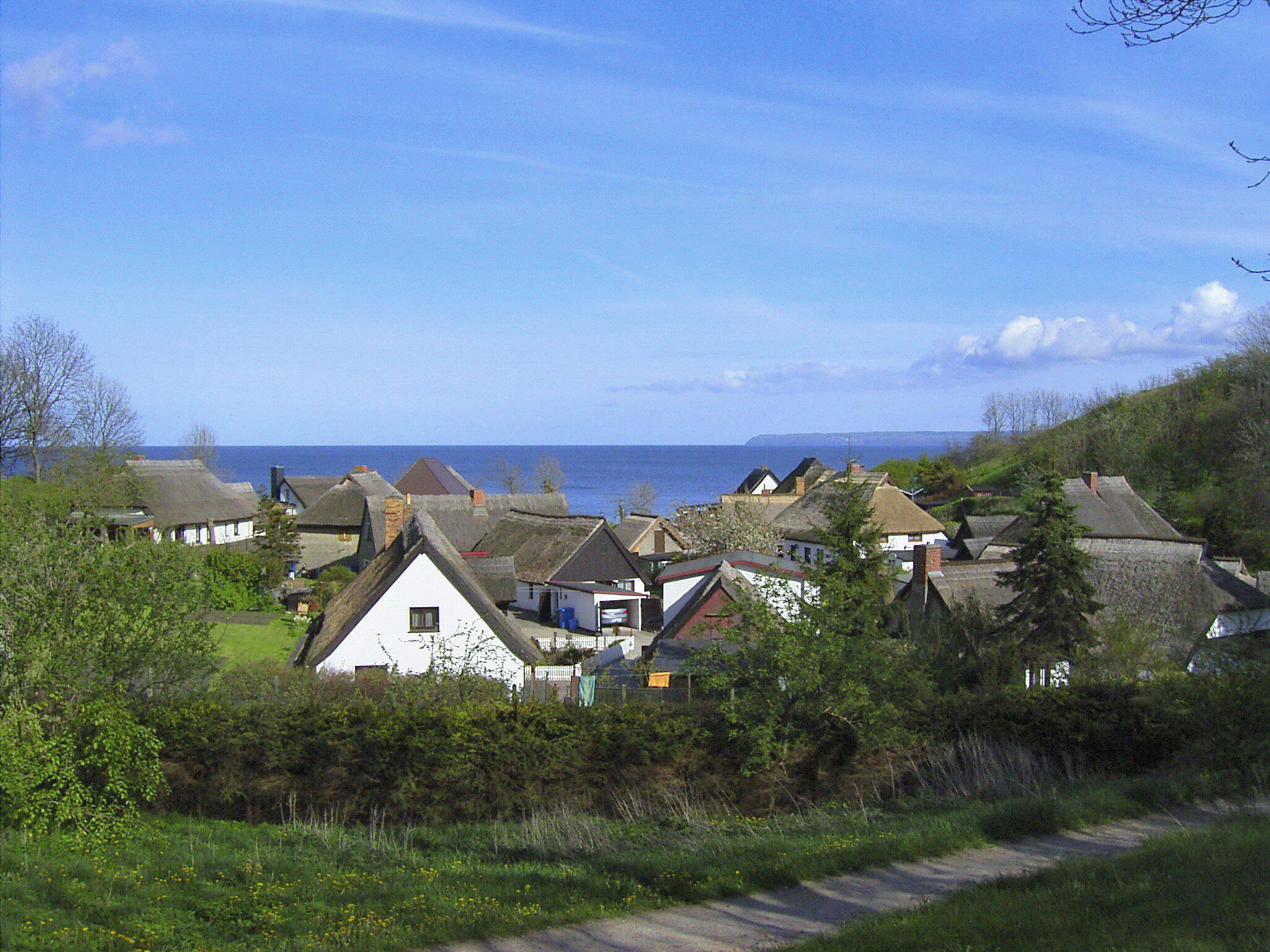 fishing village Vitt in May 2005